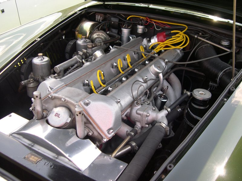 Aston Martin DB4 Series 1